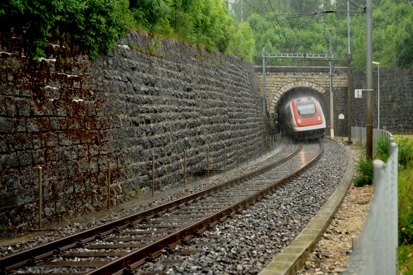 Northern entrance of the Grenchenbergtunnel in Moutier; Berne, Switzerland.